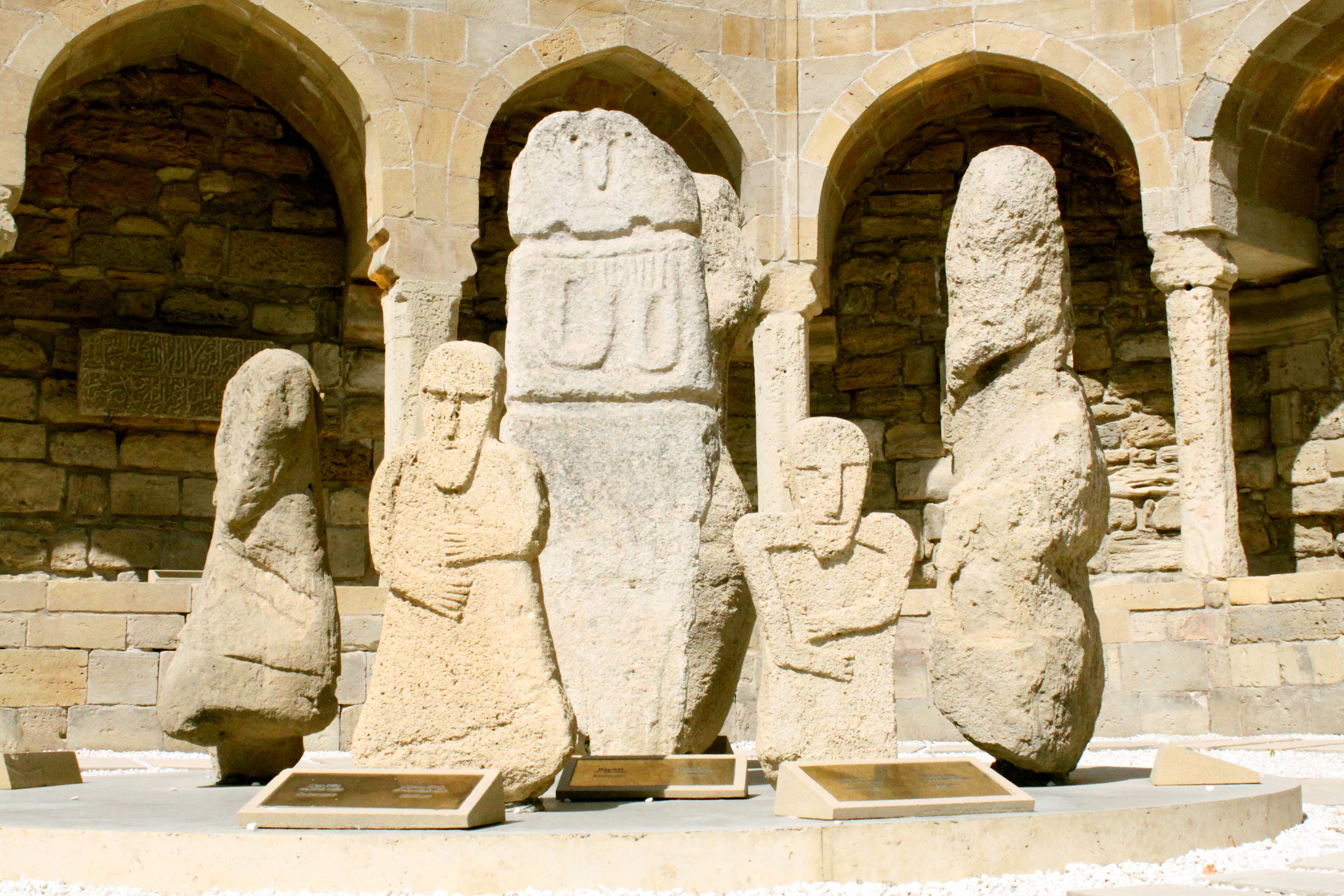 Antique era Caucasian Albanian stone idols in Ichery sheher